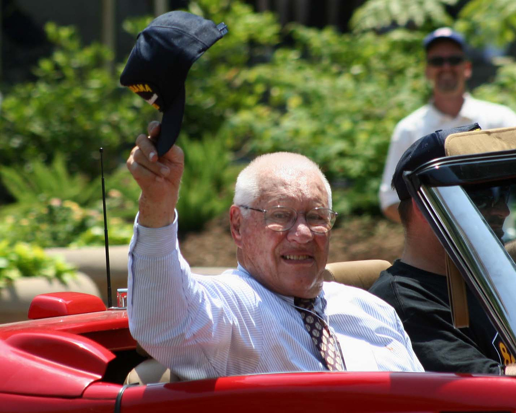 Bob Feller, Baseball Hall of Famer